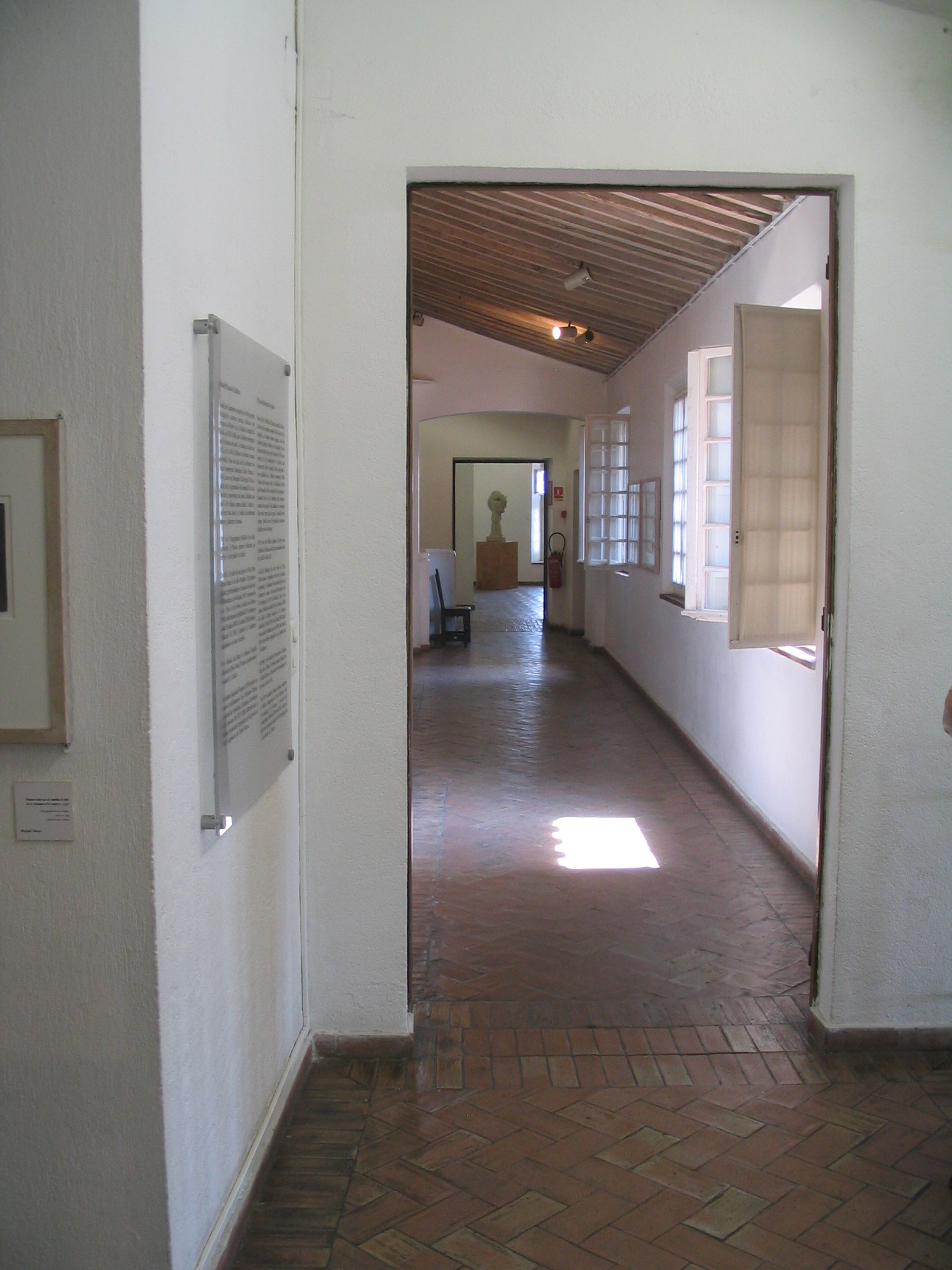 A hallway with open windows on the upper floor of the Musée Picasso in the Château Grimaldi. (img_2783)